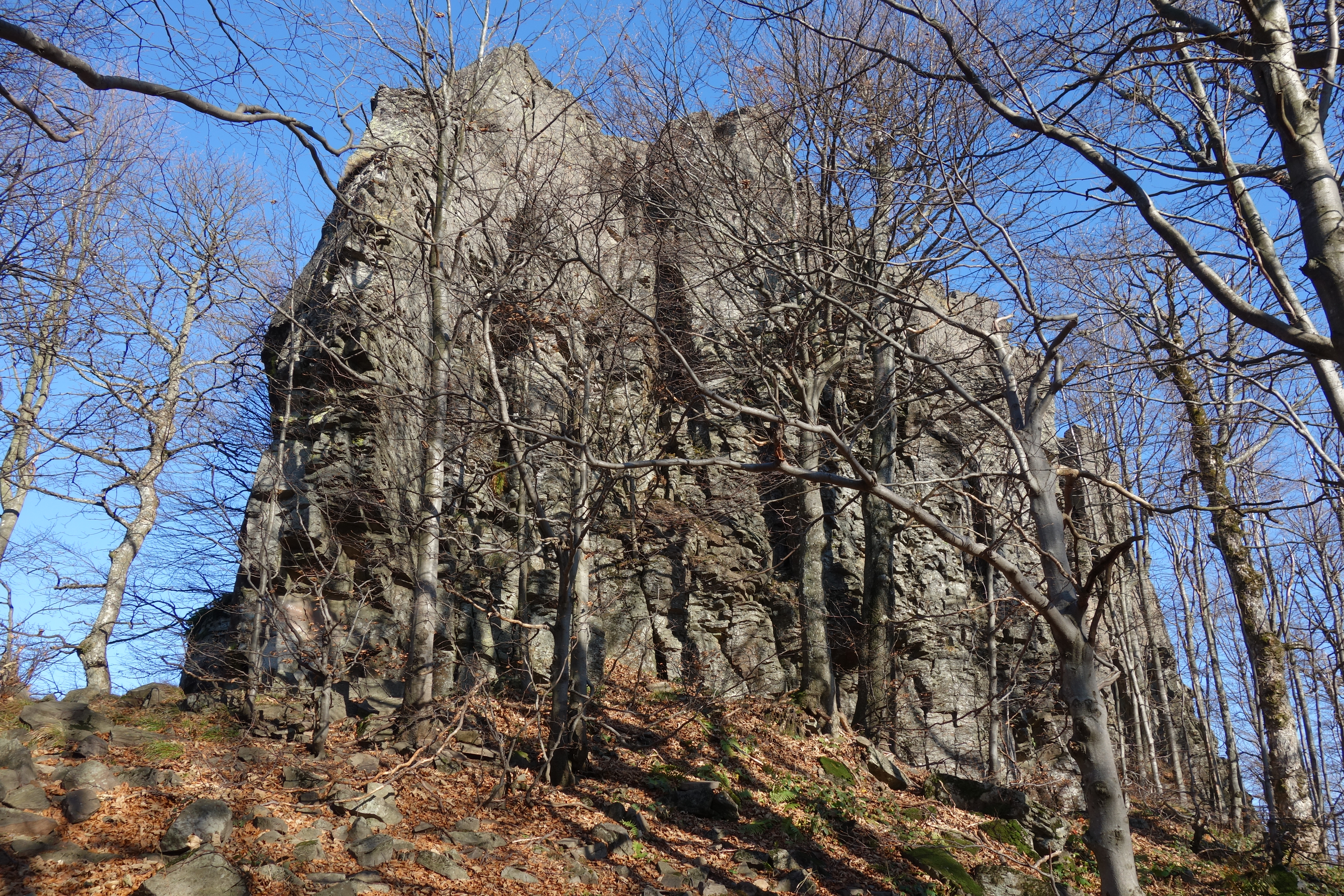 Little Sninský kameň in November This is a photography of Natura 2000 protected area with ID SKUEV0209